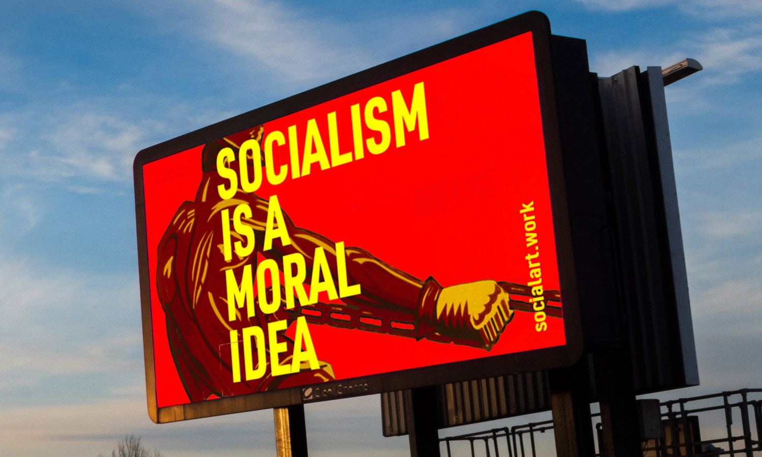 Text by public artist Martin Firrell with Clare Short presented on digital billboards in the UK, part of the series titled Union City (2019).